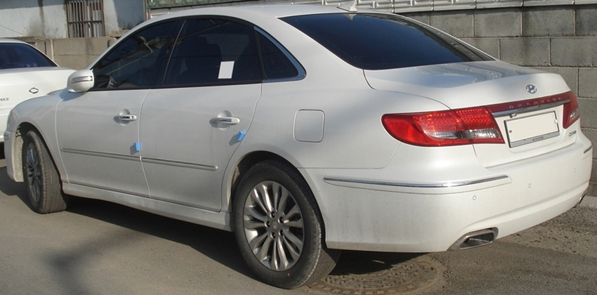 Hyundai The Luxury Grandeur